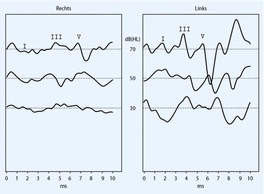 Waveforms of BERA